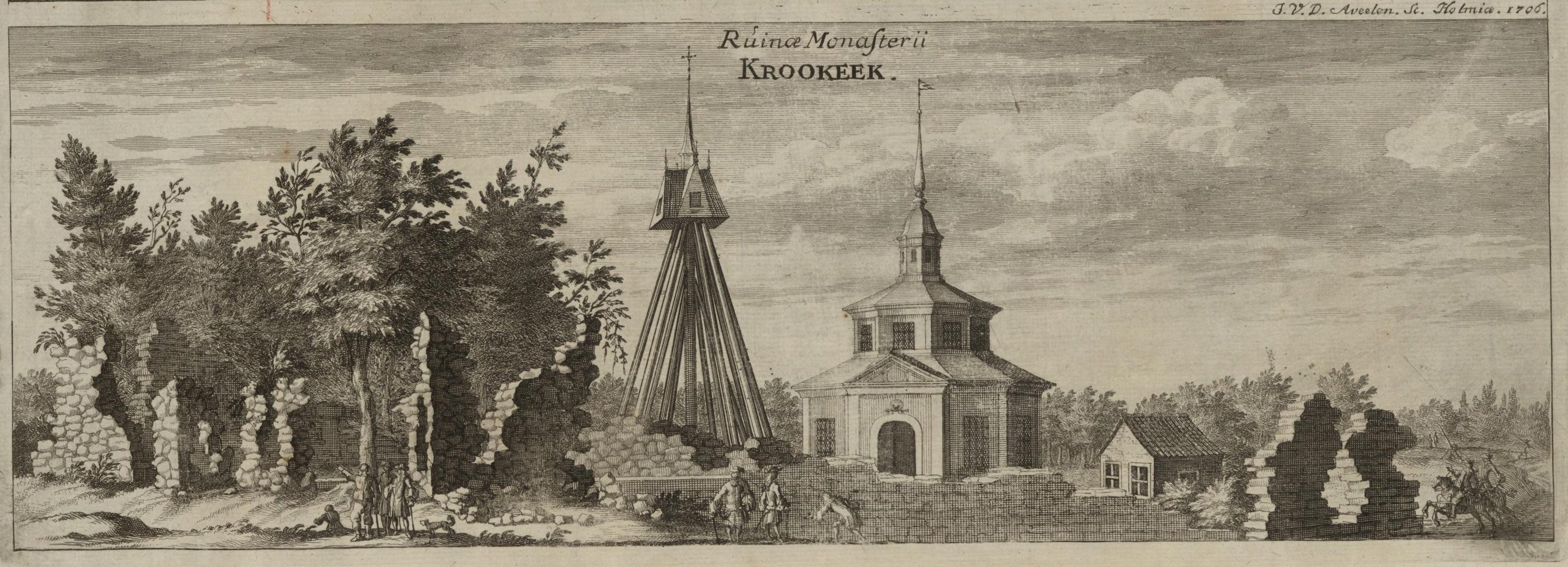 The convent ruin outside Krokek around 1700. Published in Erik Dahlberg's Suecia antiqua et hodierna 1706. Engraved by Johannes van den Aveleen (1655? - 1727)